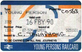 Second APTIS version of the Young Persons Railcard. Scanned from my own collection.